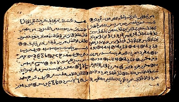 Sorabe Malagasy Arabic scriptMalagasy: Pejim-boky amin'ny teny malagasy nosoratana tamin'ny alalan'ny Sorabe